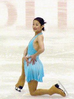 Fang Dan at the 2003 NHK Trophy.